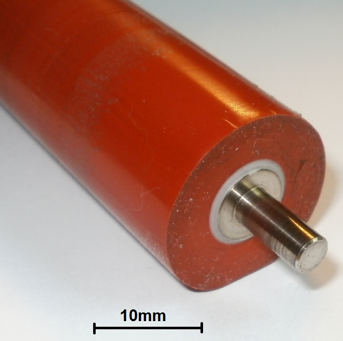 silicone roll from a laser printer